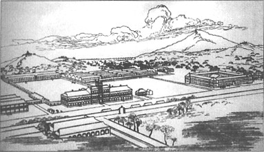 A full view of Liangjiang Normal School in Nanjing.